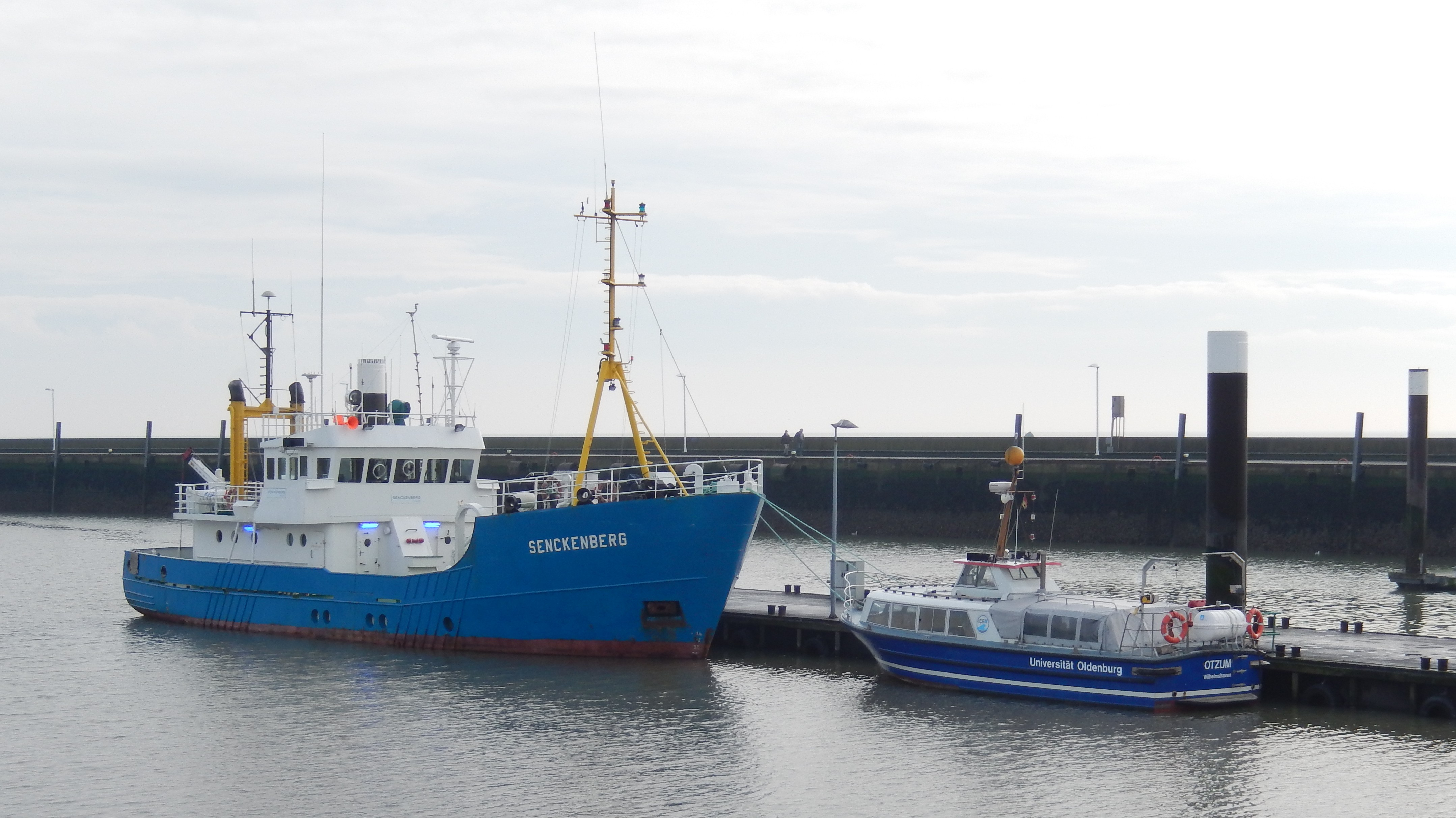 Research vessels Senckenberg and Otzum in Wilhelmshaven, Germany.